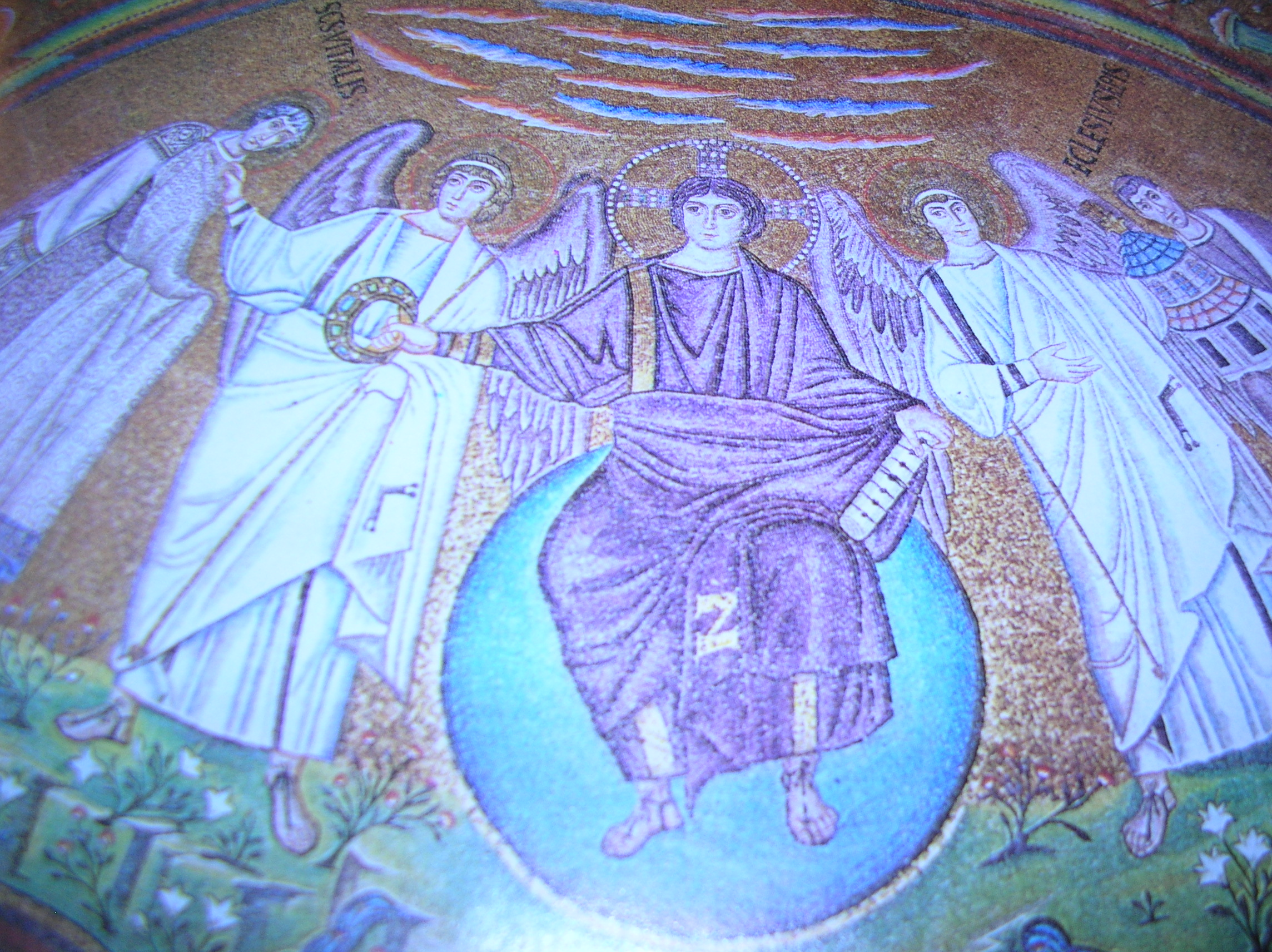 Christ on throne